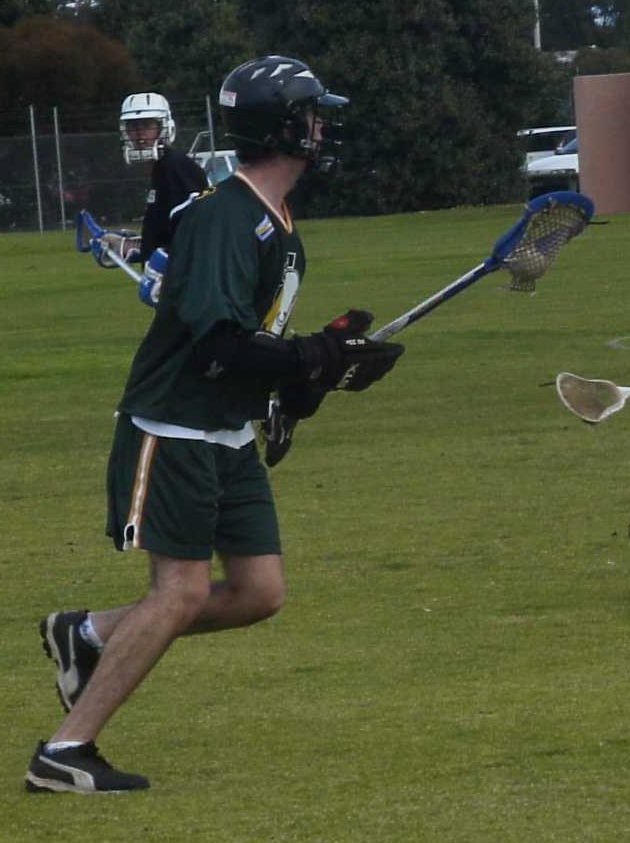 Woodville Warriors attack player carries the ball past an Adelaide University defender 2002. Photographer Daren Potts